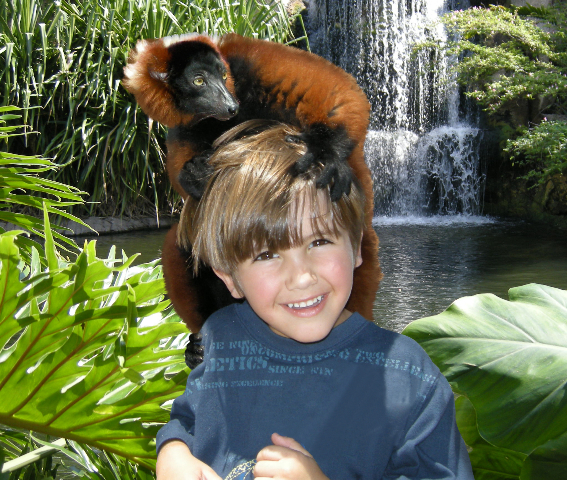 At Miami's Jungle Island, a boy makes friends with a Red-Ruffed Lemur during one of the park's Lemur Experiences.